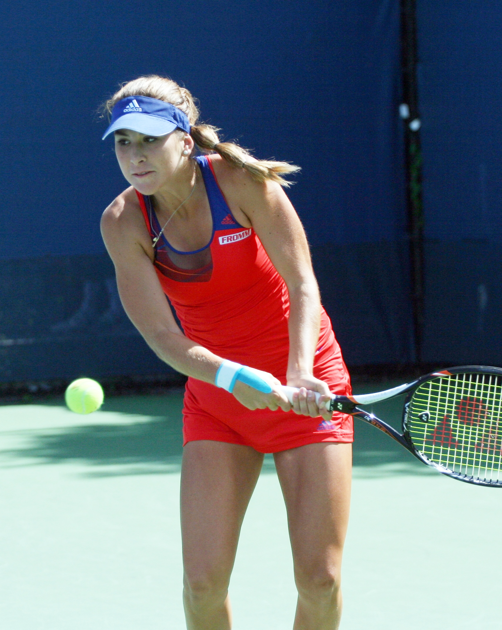 Belinda Bencic at the 2013 US Open